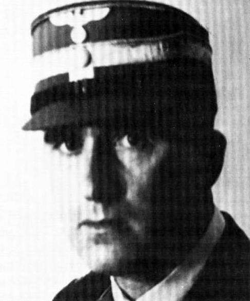 German politician and ambassador to Croatia Siegfried Kasche in SA uniform